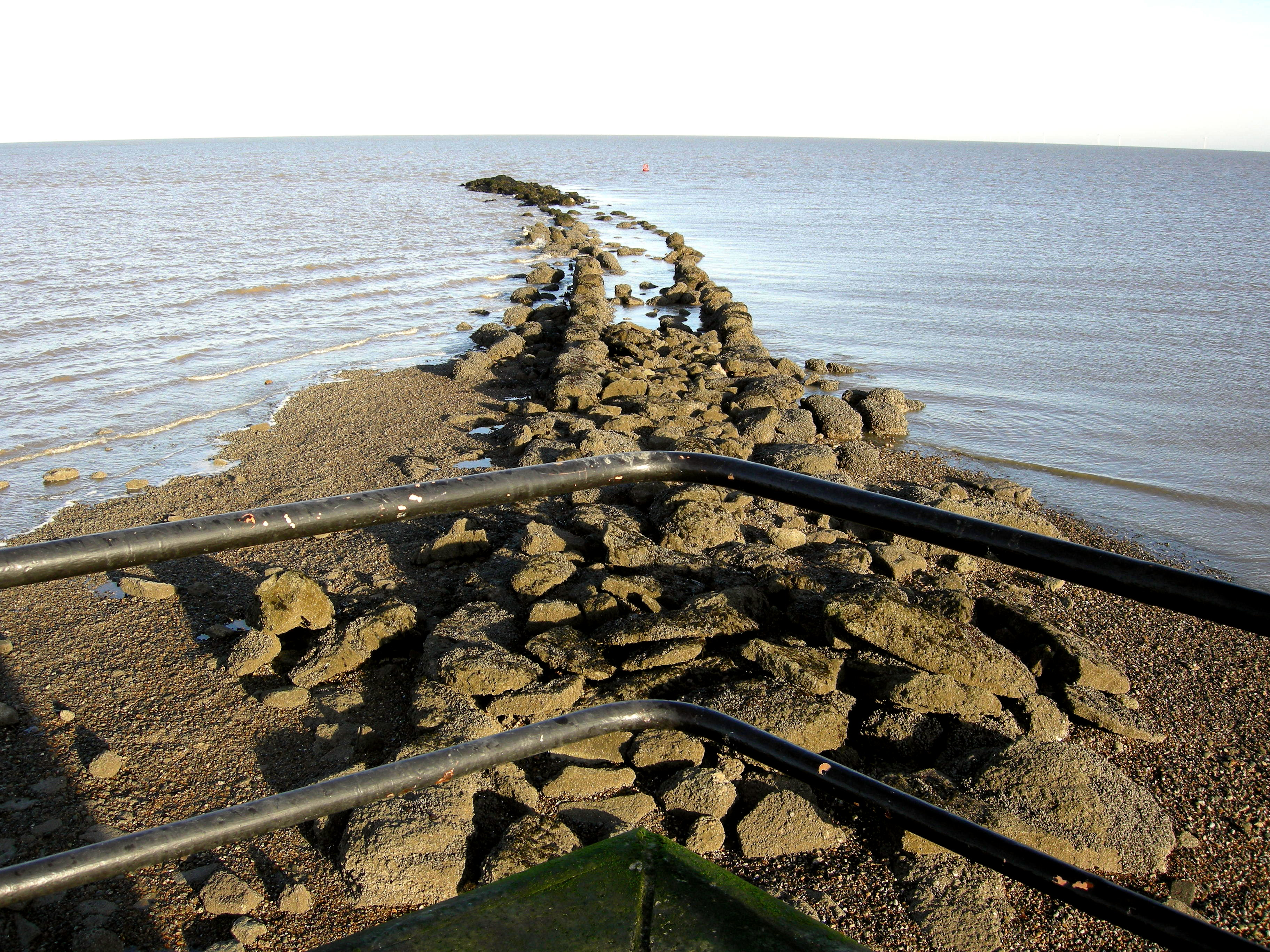 Site of abandoned and drowned village Hampton-on-Sea, Herne Bay, Kent, England. Source of identification of site: Martin Easdown, Adventures in Oysterville, (Michael's Bookshop, Ramsgate, 2008)